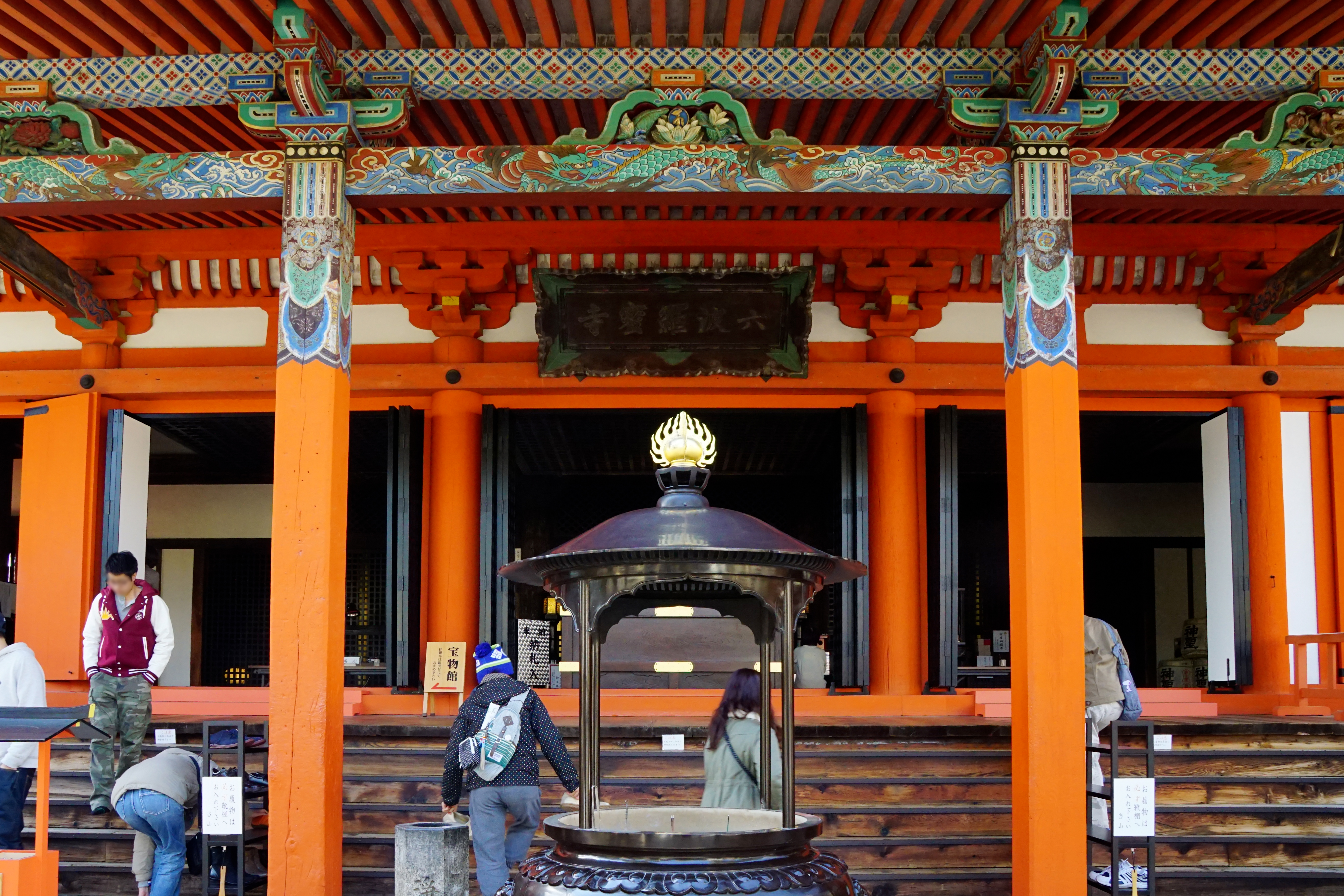 Rokuharamitsu-ji, Higashiyama-ku, Kyoto, Kyoto prefecture, Japan.